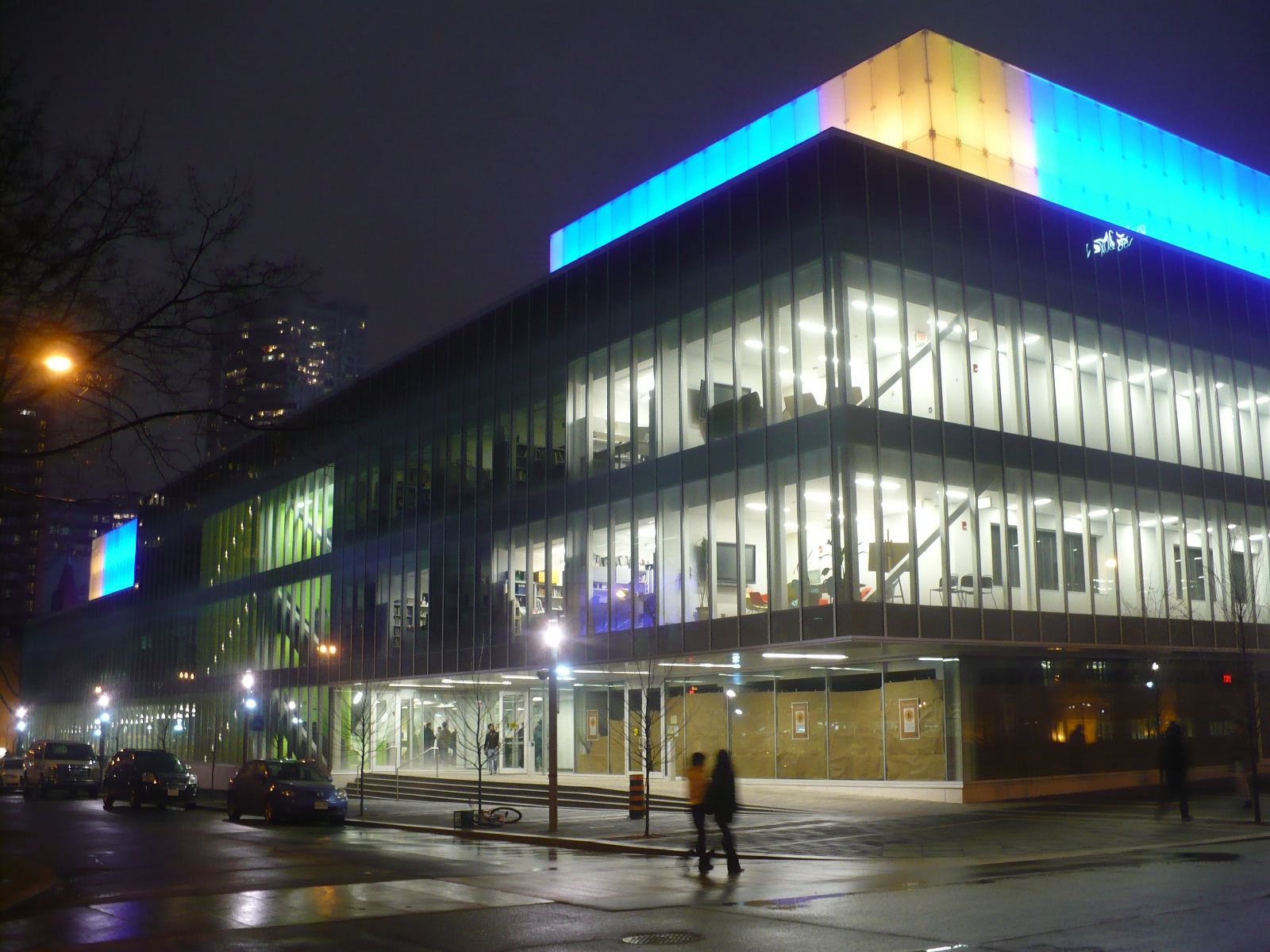 Ryerson Image Centre in the dark, damp and drizzle of spring